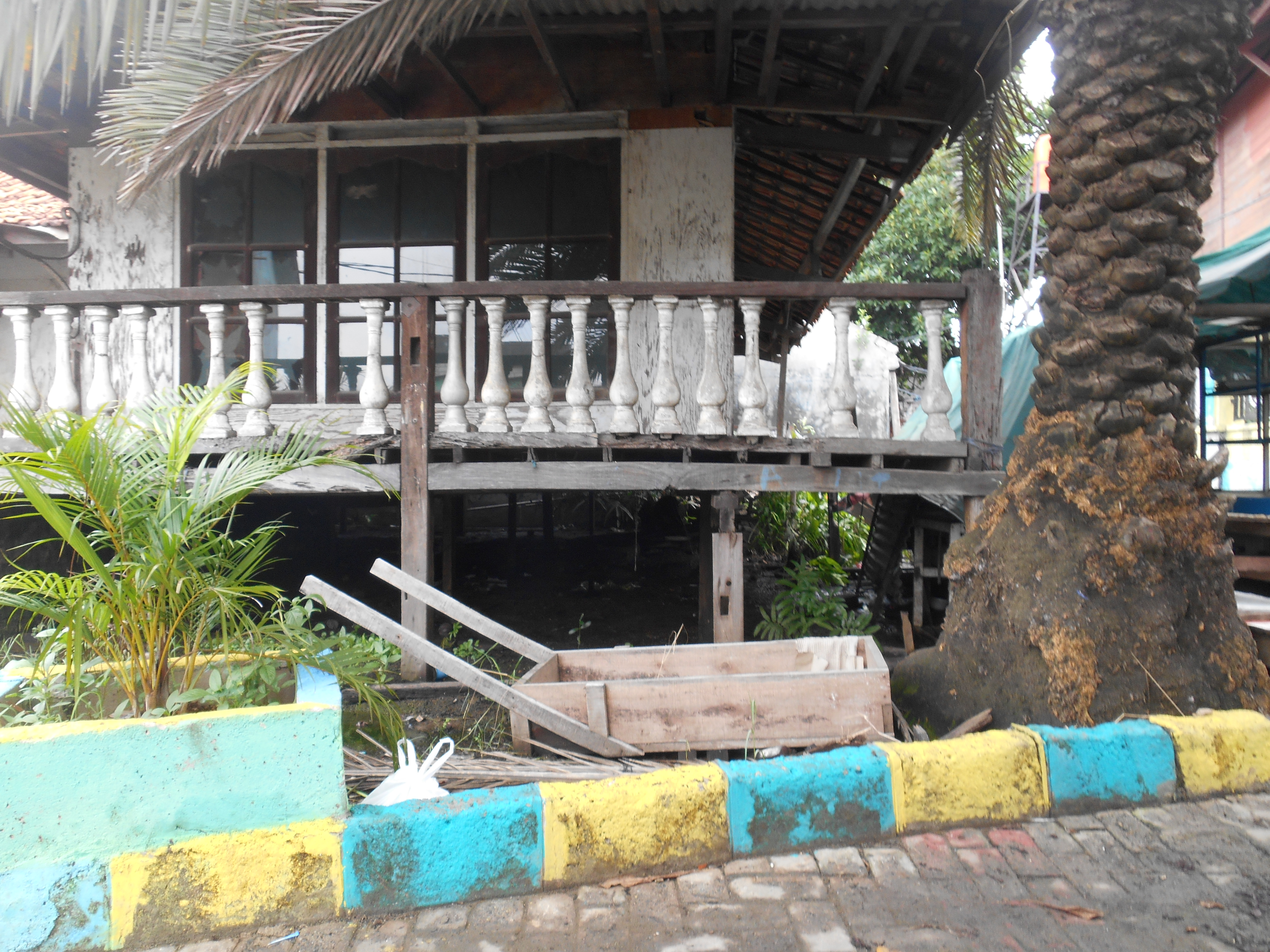 Rumah Panggung Betawi di Kampung Marunda Pulo, persis bersebelahan dengan Rumah si Pitung